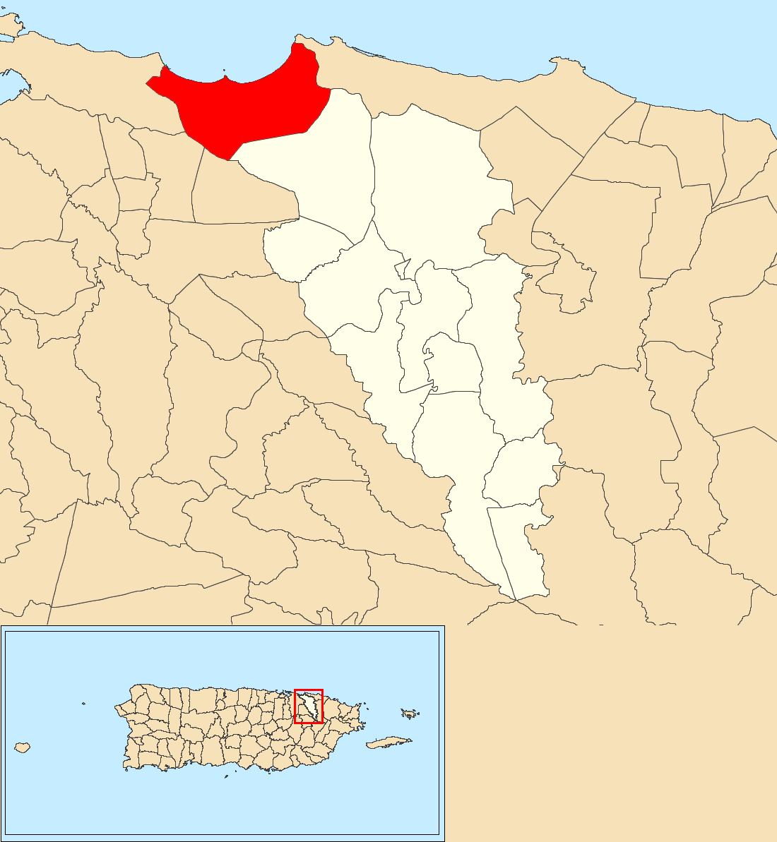 Cangrejo Arriba, Carolina, Puerto Rico locator map